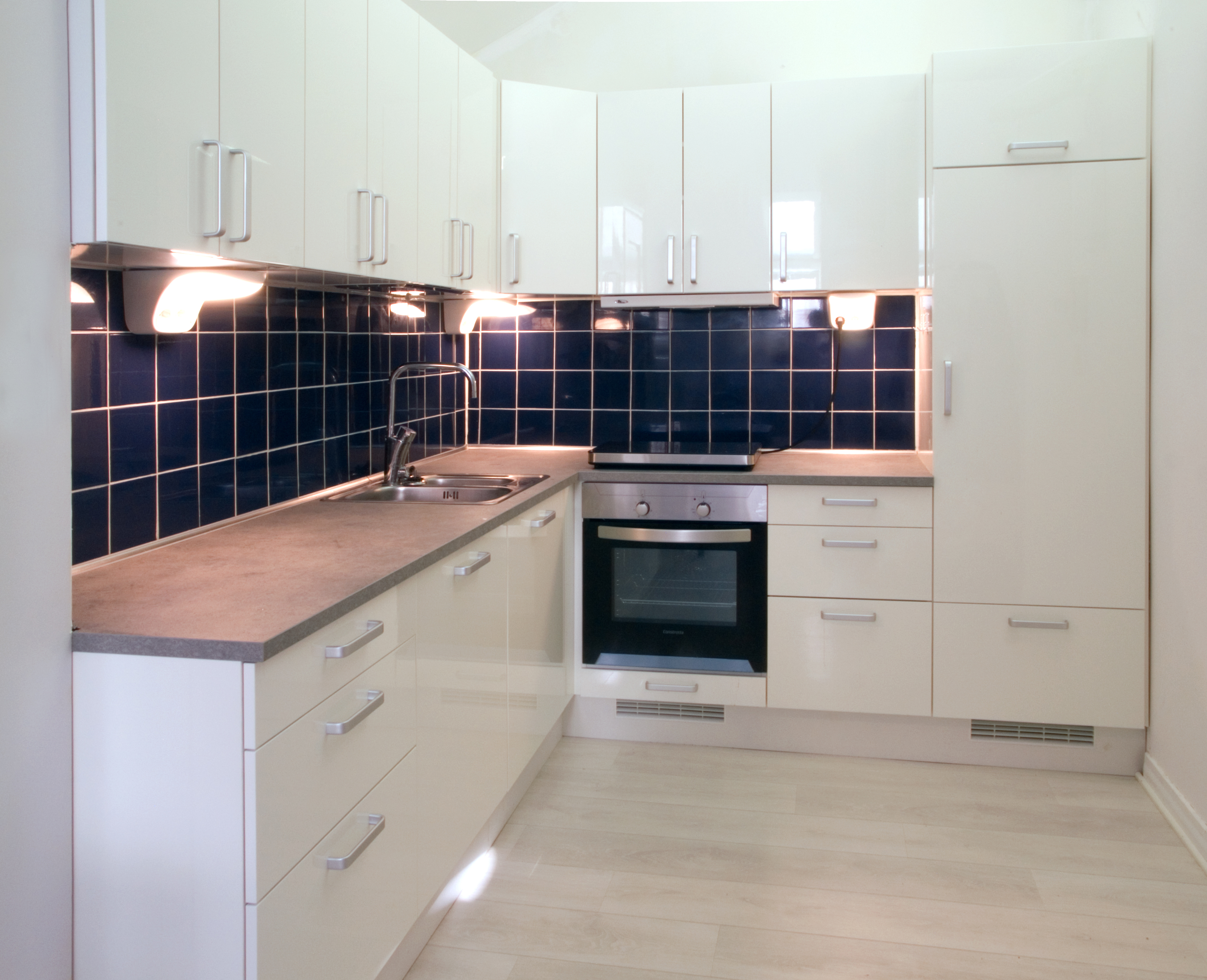 Scandinavian-style glossy white kitchen cabinets, shown with all doors and drawers closed. See another similar photo with doors and drawers open.